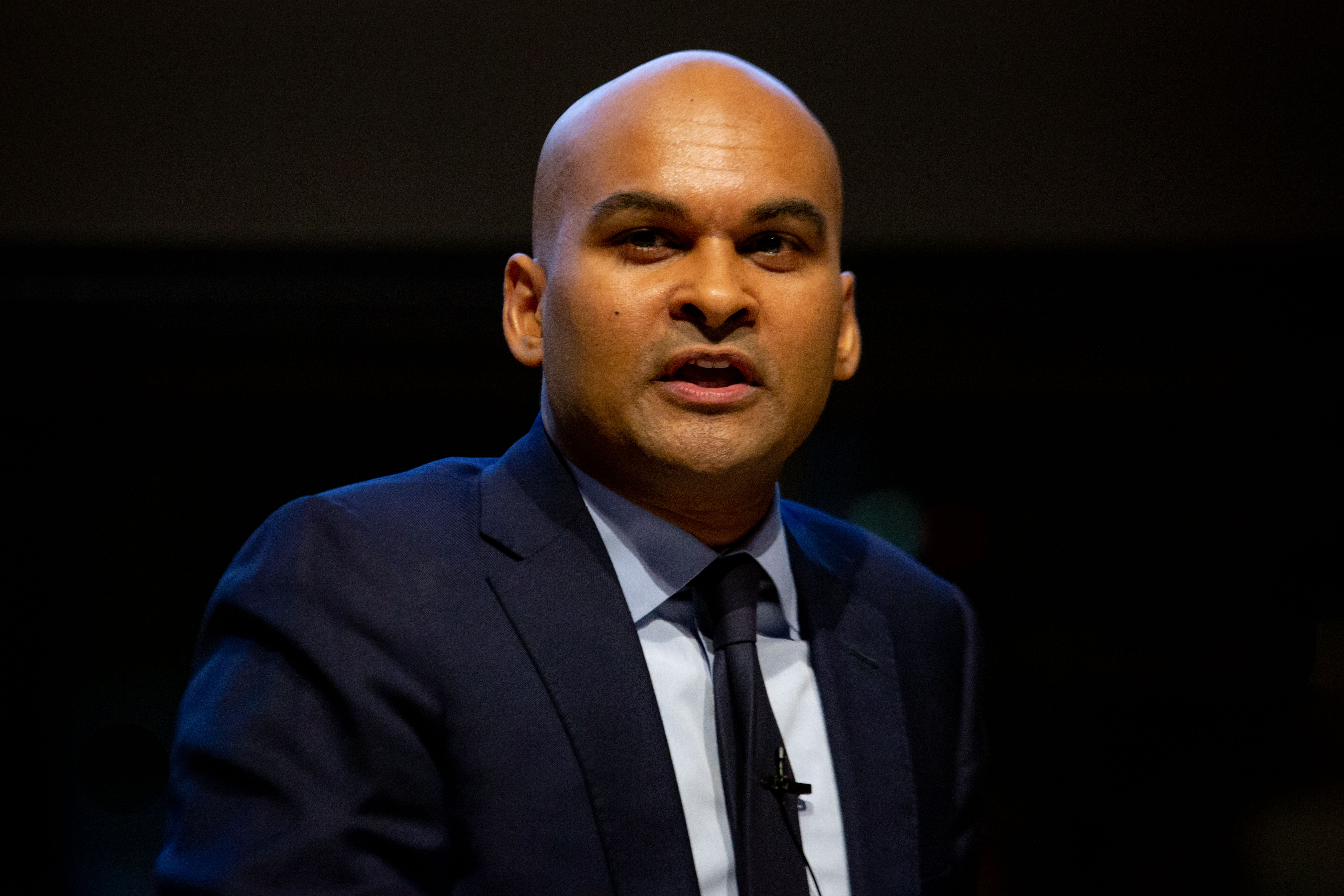 Civil Disagreements: Immigration with Doris Meissner and Reihan Salam